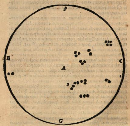 From Borbonia Sideria